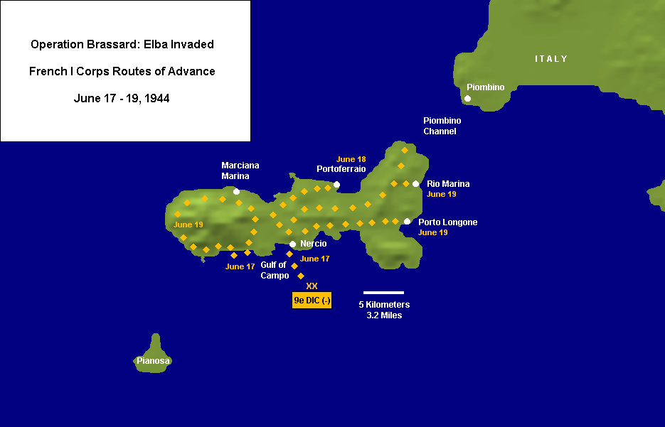 Operation Brassard, the invasion of Elba, 1944. Source of file is W. B. Wilson. Made with MapCreator 1.0 software. The maps created with MapCreator 1.0 can be used in all media and require no licence. for details.